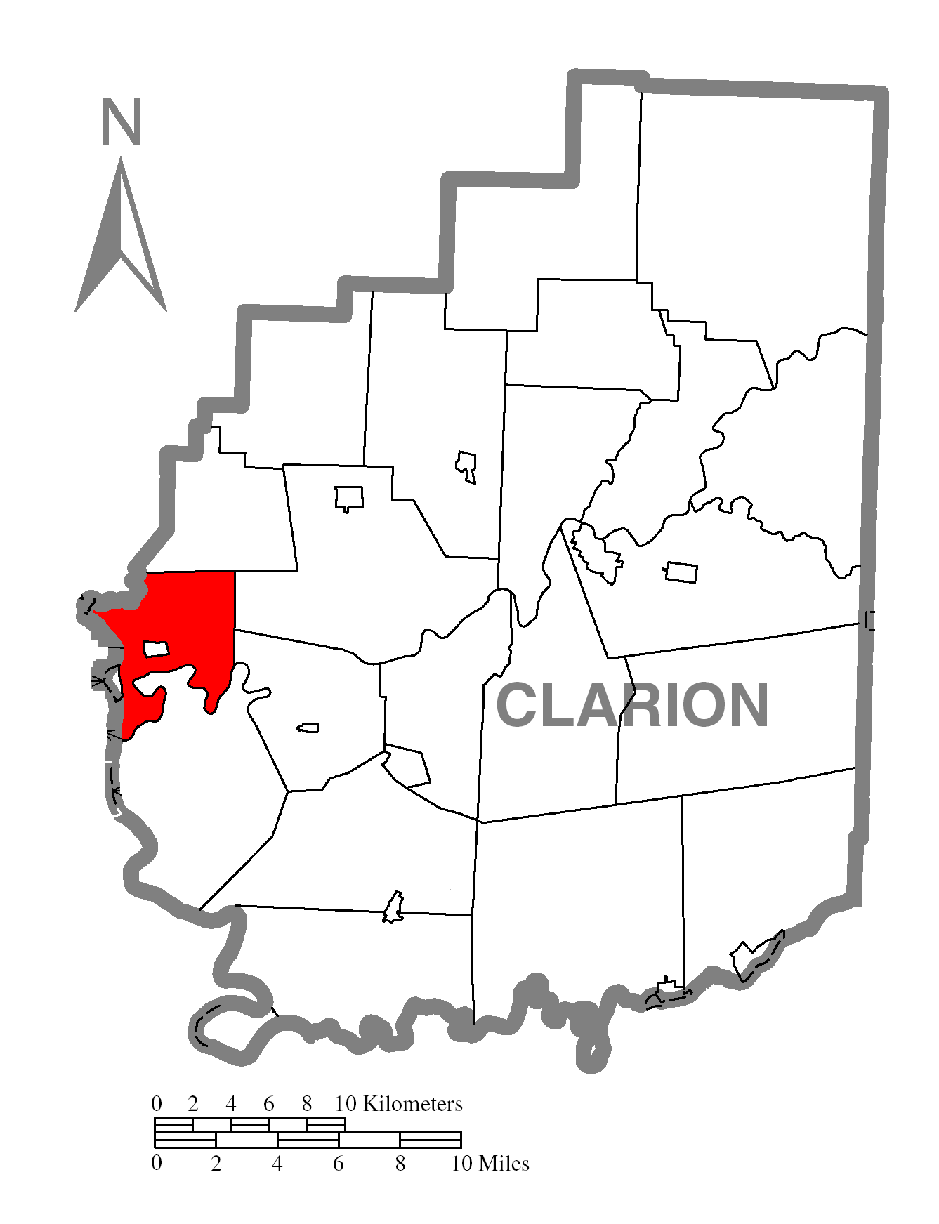 A map of Clarion County showing Richland Township, Pennsylvania (alternate) highlighted on the map.